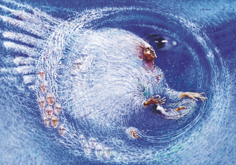 Качелі Юлая